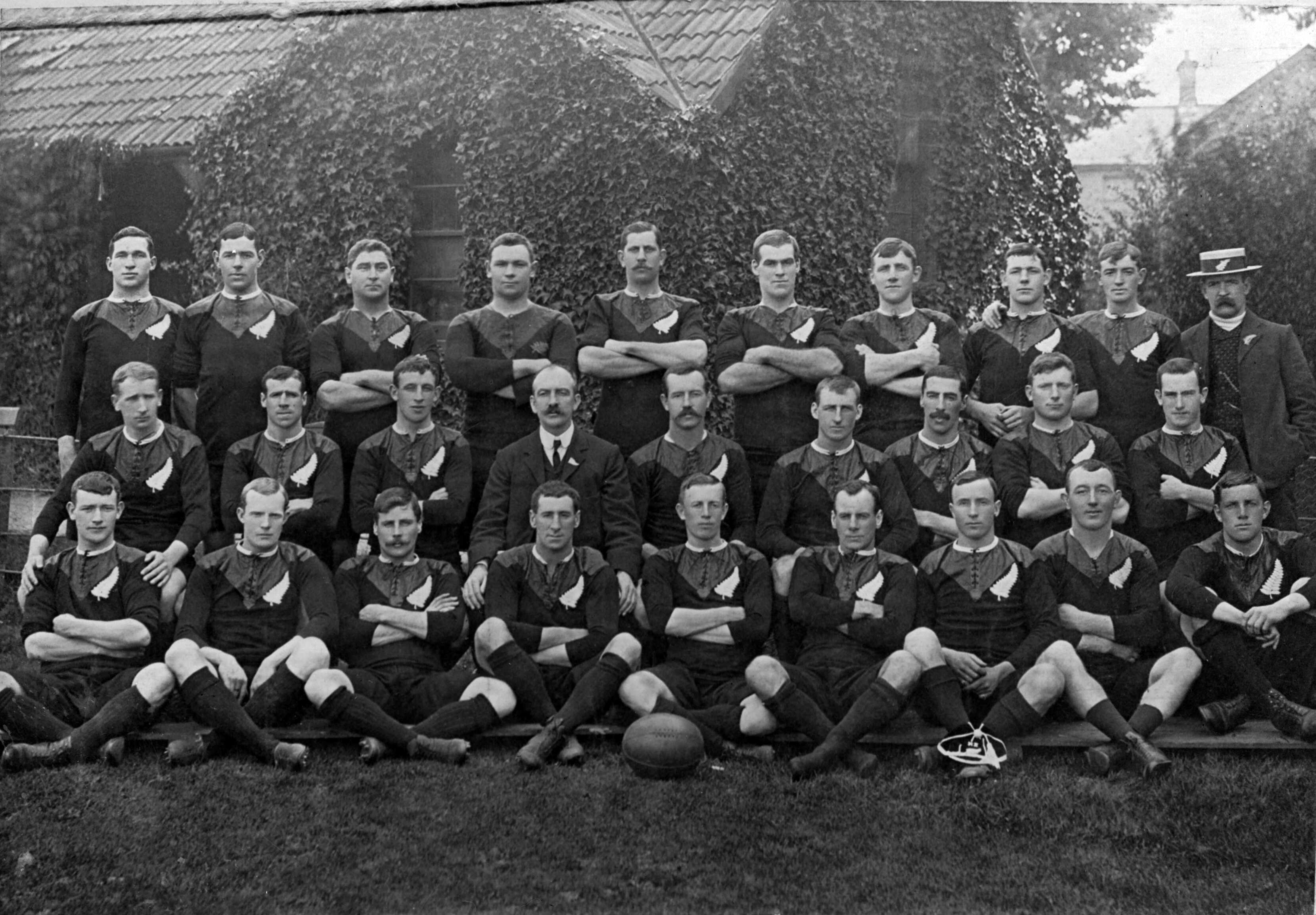 All Blacks rugby union team that toured the United Kingdom in 1905-6. Description from [1] reads: NEW ZEALAND FOOTBALLERS ON TOUR IN GREAT BRITAIN AND IRELAND. The colonials, who so far have had a brilliantly victorious career, play their last international match on Saturday against Wales, which is expected to be the toughest encounter of the tour, and there is not a Maorilander who does not wish his fellow colonists "kia ora" on that occasion. Top Row — J. Corbett, W. Johnstone, W. Cunningham, P. Newton, G. Nicholson, C. Seeling, J. O'Sullivan, A. McDonald, D. McGregor, J. Duncan (coach). Middle Row — E .J. Harper, W. J. Wallace, J. W. Stead (vice-captain), G. W. Dixon (manager), D. Gallaher (captain), J. Hunter, G. Gillett, F. Glasgow, W. Mackrell. Bottom Row — S. Casey, H. L .Abbott, G. W. Smith, F. Roberts, H. D. Thompson, H. J. Mynott, E. E. Booth, G. A. Tyler, R. G. Deans.